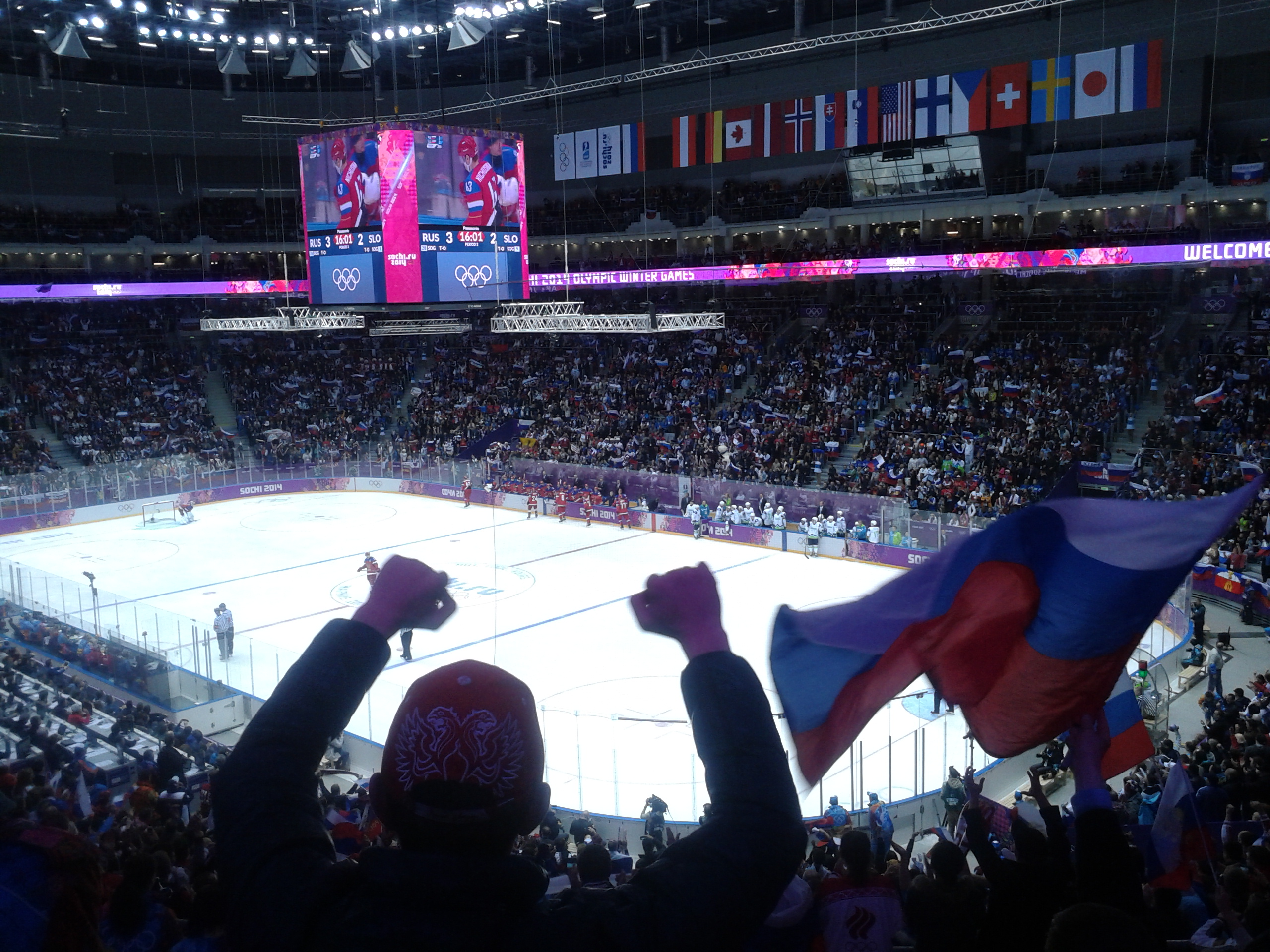 Olympic Winter Games Ice Hockey - Was it really a score or not- Russia againts Slovenia - score 4-2